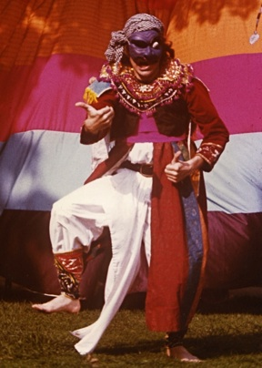 John Emigh as one of the narrators in a solo Topeng performance.